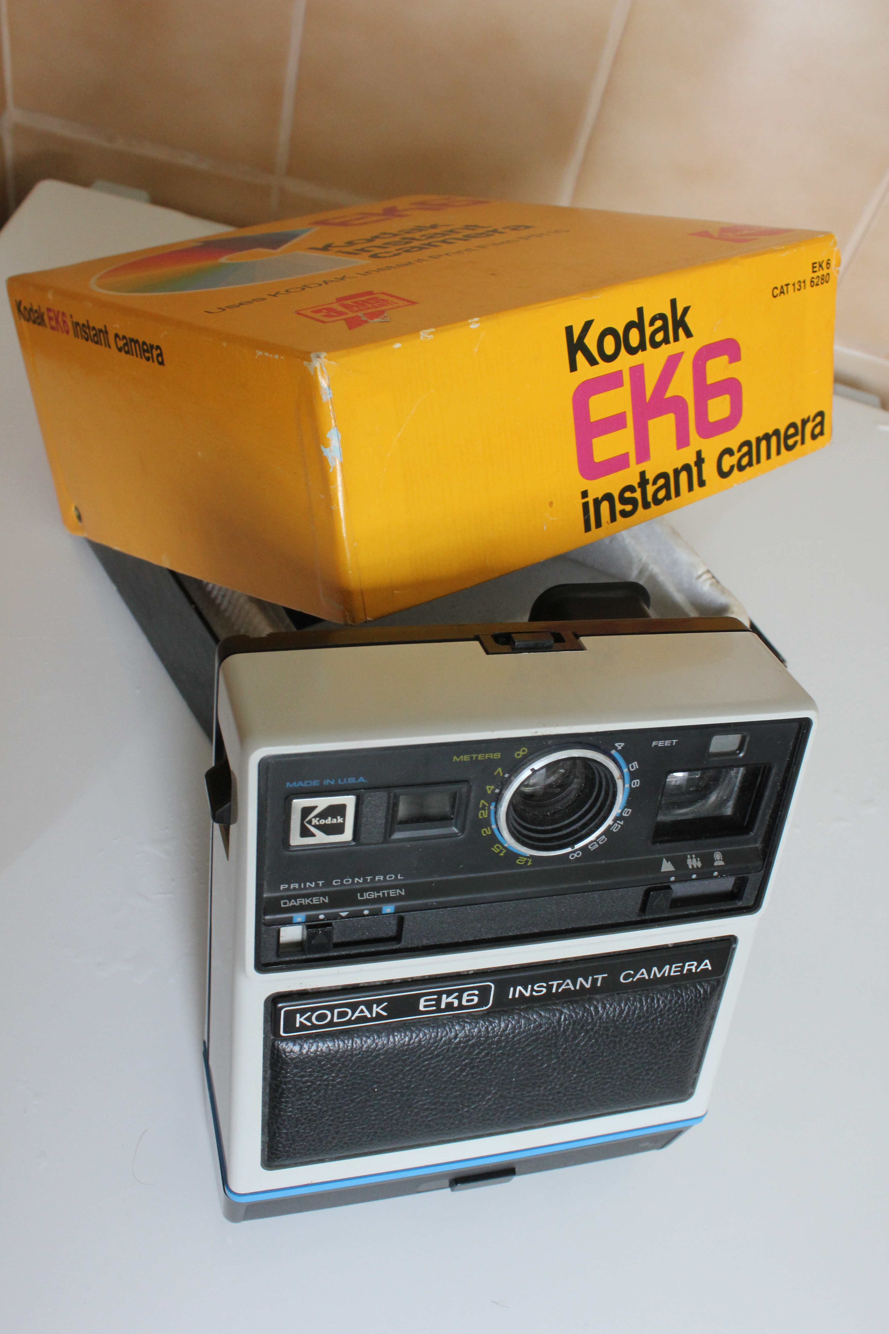 Kodak Instant Camera EK6